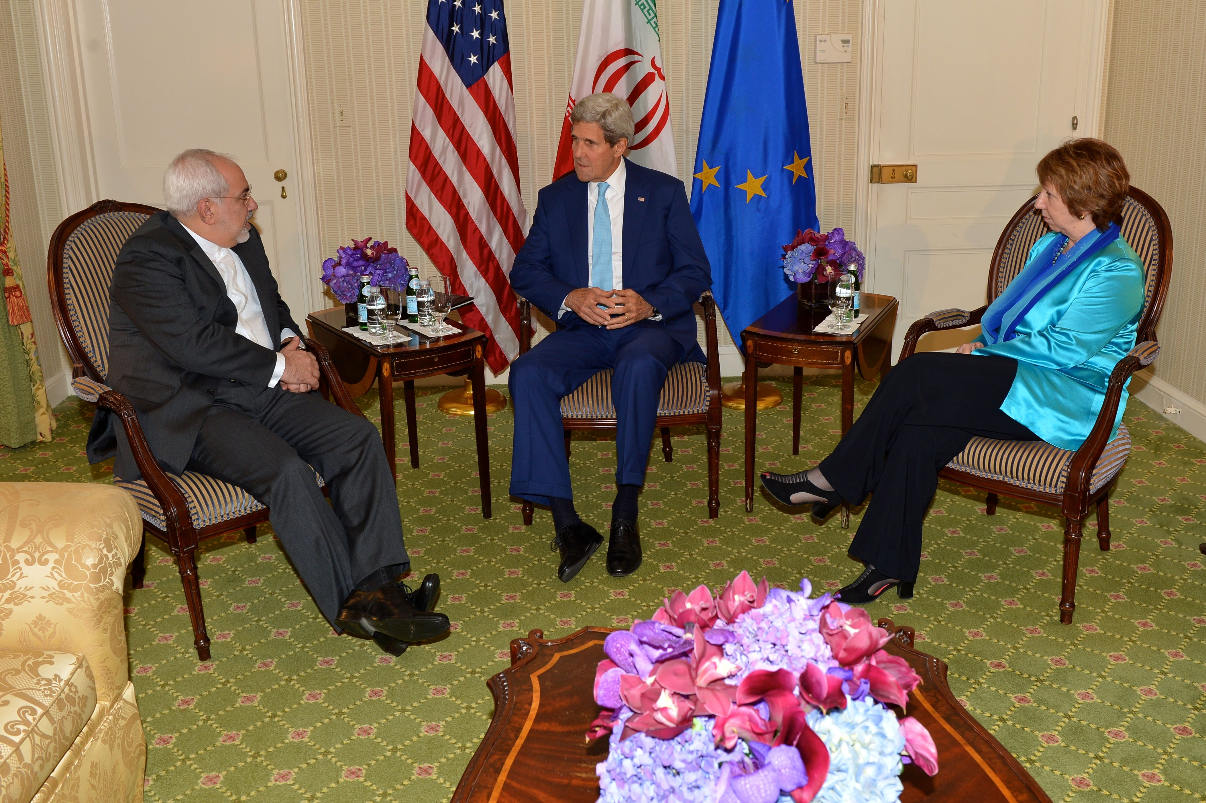 U.S. Secretary of State John Kerry participates in a trilateral meeting with EU High Representative Catherine Ashton and Iranian Foreign Minister Javad Zarif, New York City on September 26, 2014